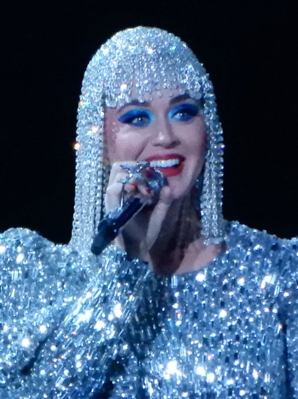 Katy Perry at Madison Square Garden